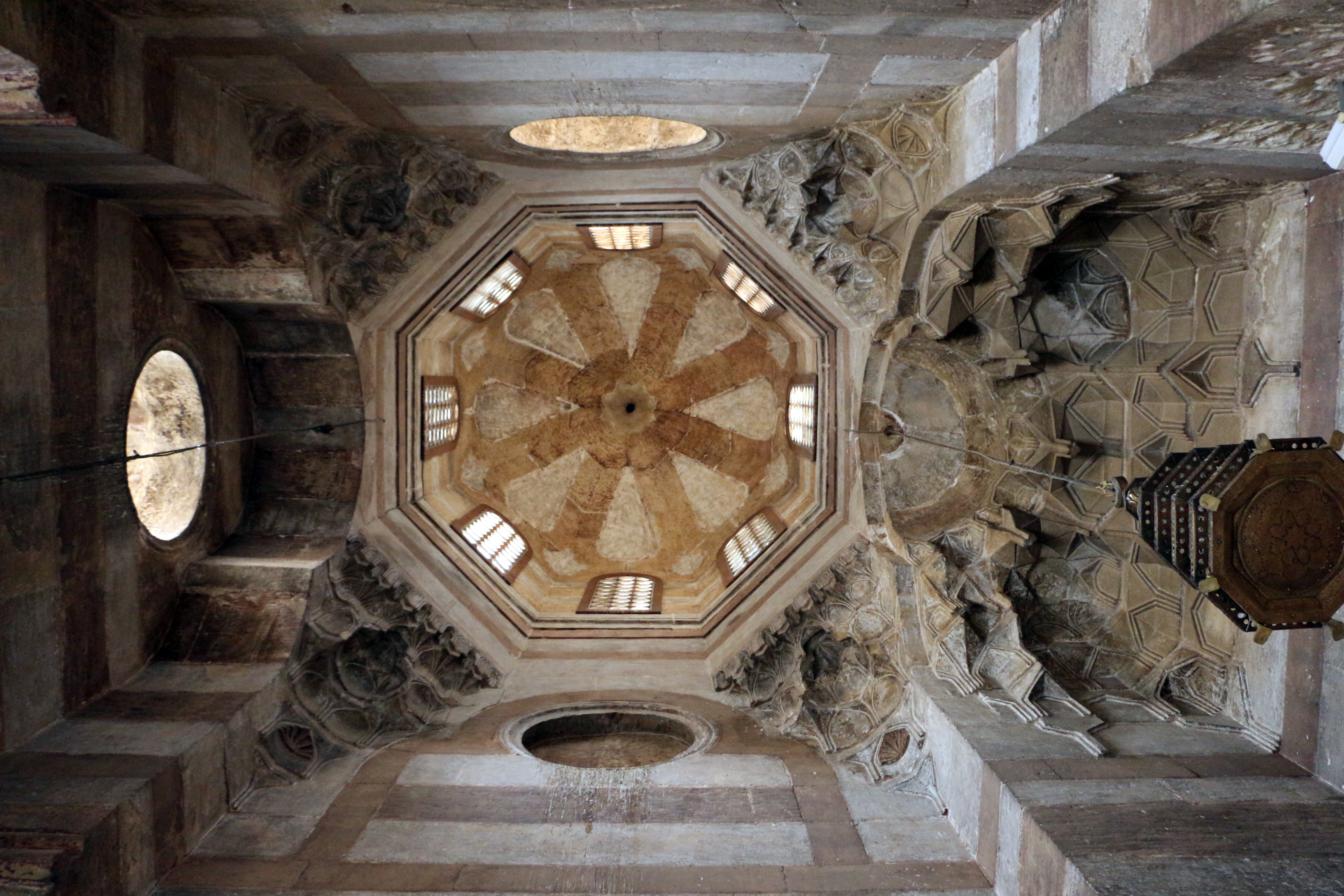 Madrasah of Sultan Barquq